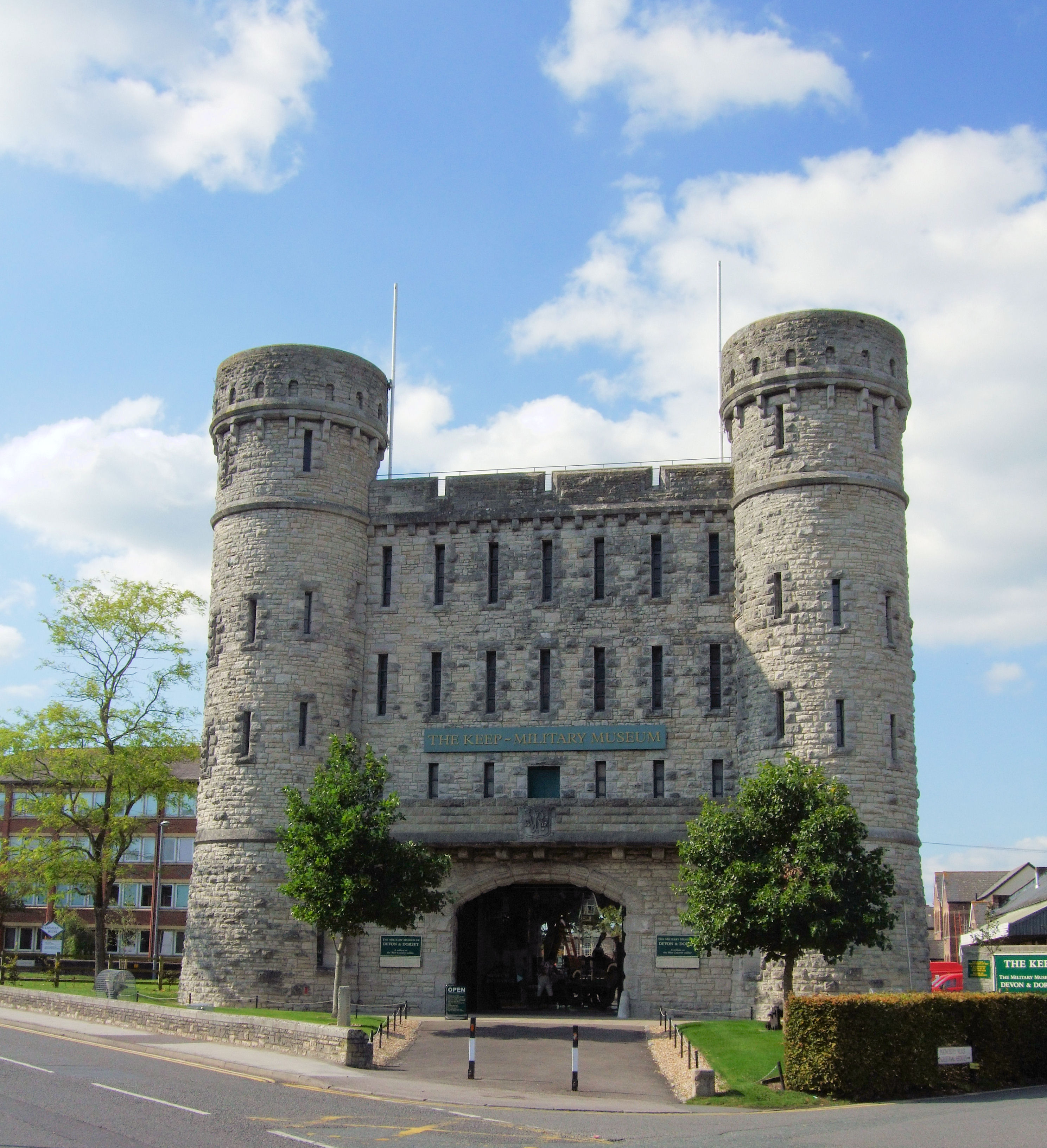 The Keep Military Museum, Dorchester, Dorset. This Grade II listed building is a modern museum dedicated to the stories of the Dorset and Devon regiments for over 300 years.